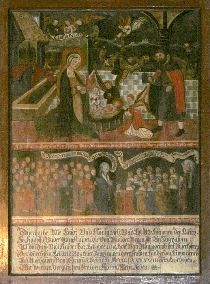 Cyriakus Church in Bönnigheim, oil painting of the „Schmotzerin“